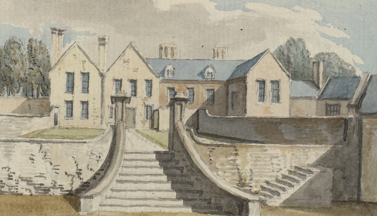 An image from a set of 8 extra-illustrated volumes of A tour in Wales by Thomas Pennant (1726-1798) that chronicle the three journeys he made through Wales between 1773 and 1776. These volumes are unique because they were compiled for Pennant's own library at Downing. This edition was produced in 1781. The volumes include a number of original drawings by Moses Griffiths, Ingleby and other well known artists of the period. Thomas Pennant (1726-1798)